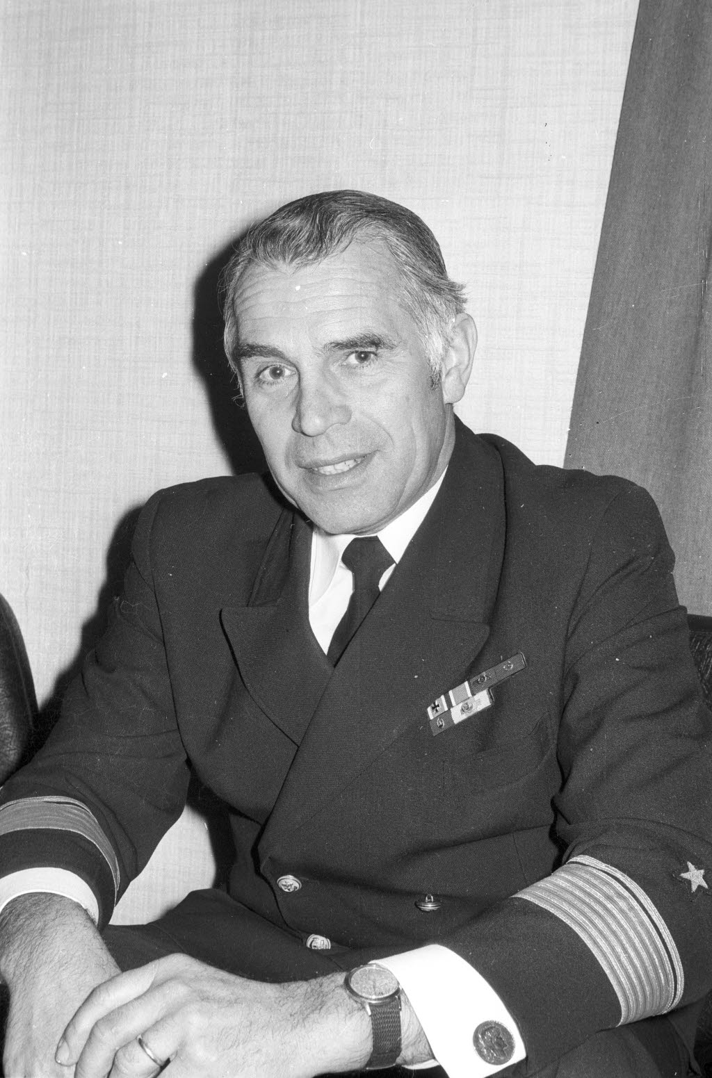 Flotilla Admiral Hans-Arend Feindt, Commander of the Naval Support Command in Wilhelmshaven